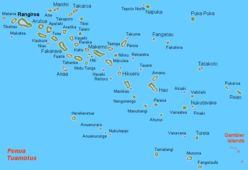 Map (rough) of the Tuamotus Islands, French Polynesia, own work composed from various mapreferences